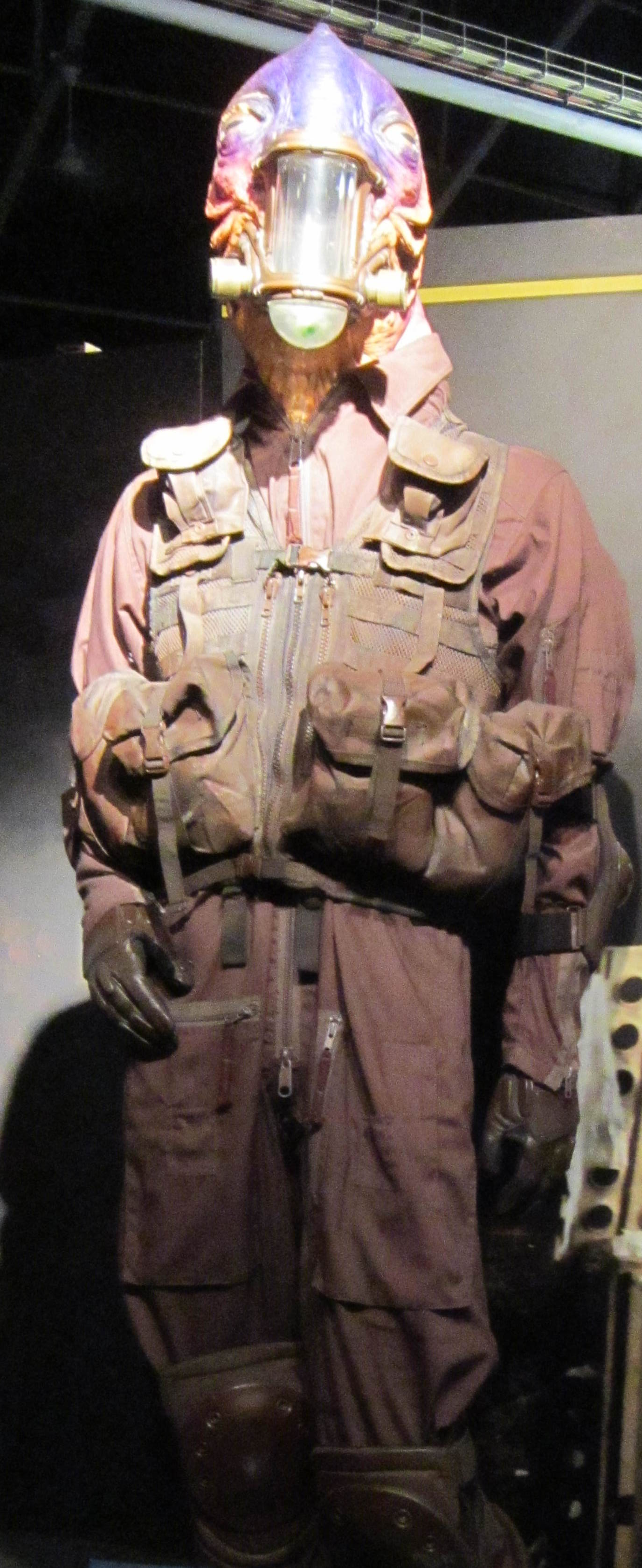 La Doctor Who Experience à Cardiff Doctor Who Experience